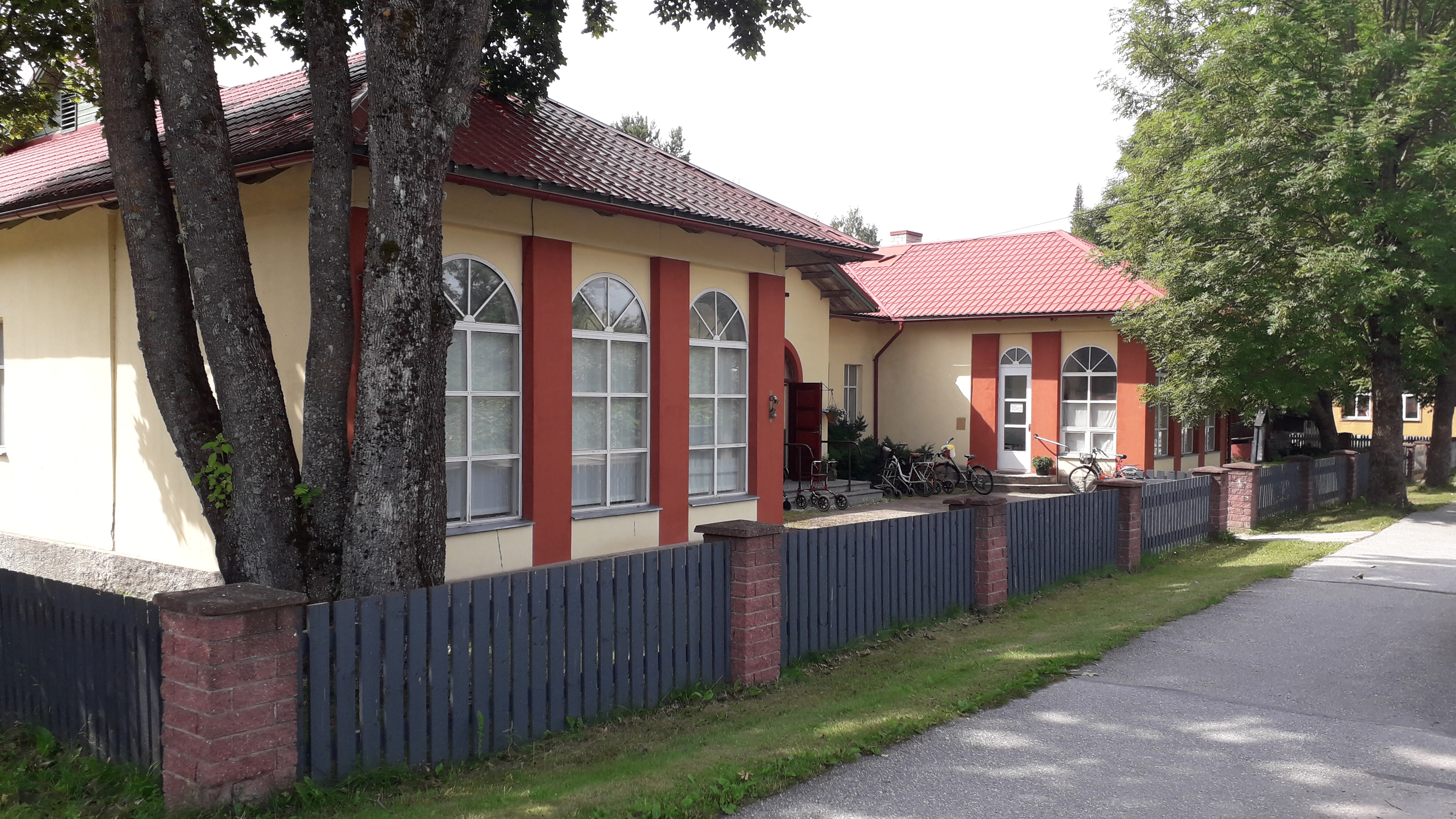 Jõgeva Lutherian church